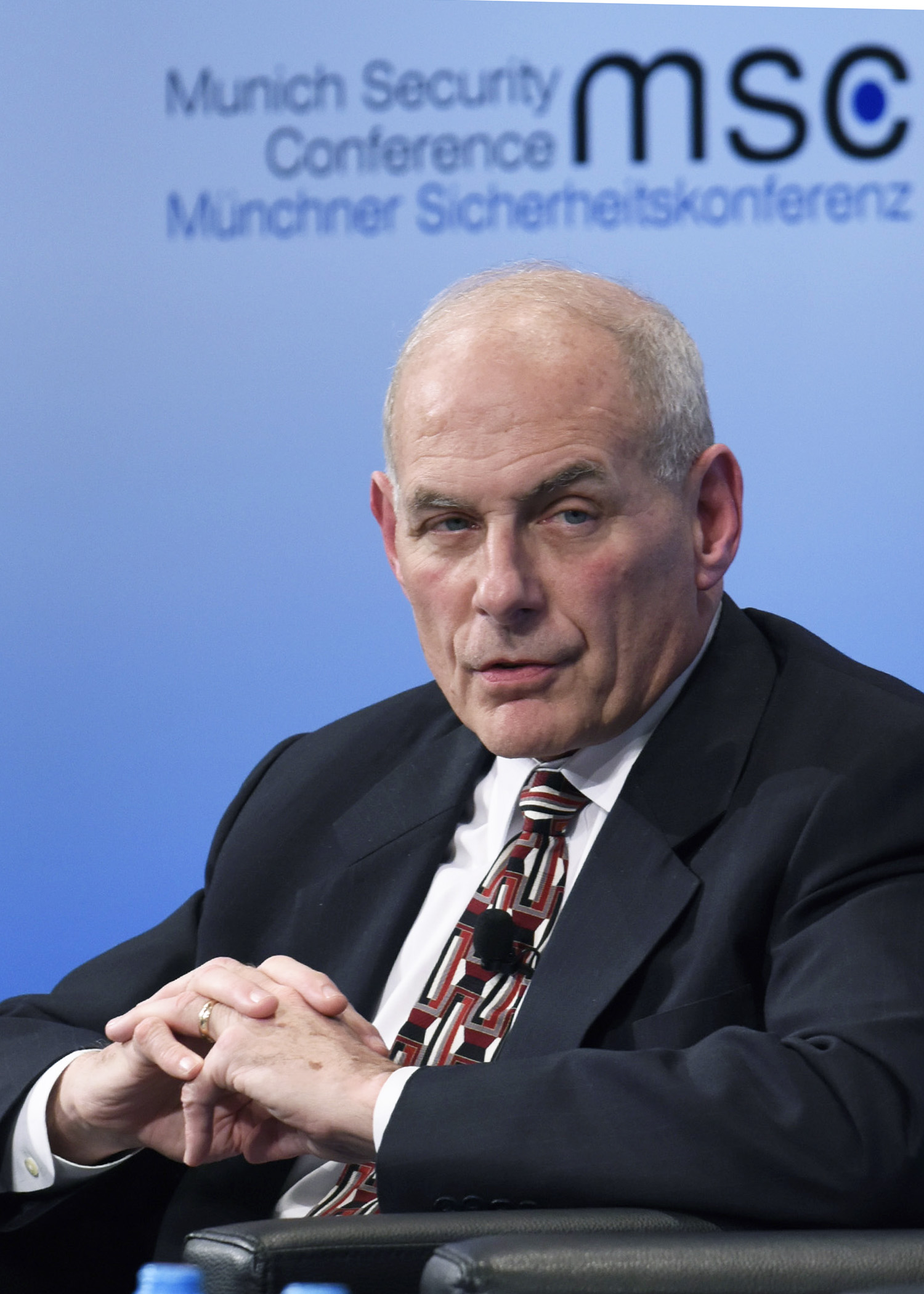 MUNICH - U.S. Secretary of Homeland Security John Kelly participates in the 2017 Munich Security Conference in Munich, Germany, Feb. 18, 2017. Over the past five decades, the MSC has become the major global forum for the discussion of security policy. Each February, it brings together more than 450 senior decision-makers from around the world, including heads-of-state, ministers, leading personalities of international and non-governmental organizations, as well as high ranking representatives of industry, media, academia, and civil society, to engage in an intensive debate on current and future security challenges. Official DHS photo by Barry Bahler.